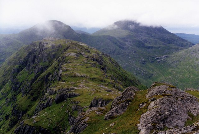 Druim Fiaclach Left is Sgurr na ba Glaise. Right is Rois-Bheinn. Both with some cloud on top.